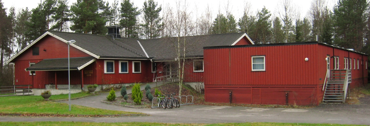 Seksjon IR, a detox unit, part of Akershus universitetssykehus (university hospital), Akershus, Norway.